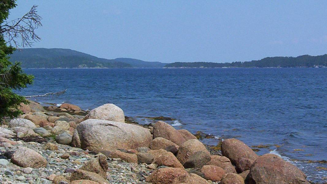 Newman Sound in Terra Nova National Park